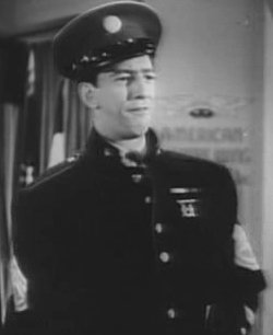 Cropped screenshot of Ray Bolger from the film Stage Door Canteen.